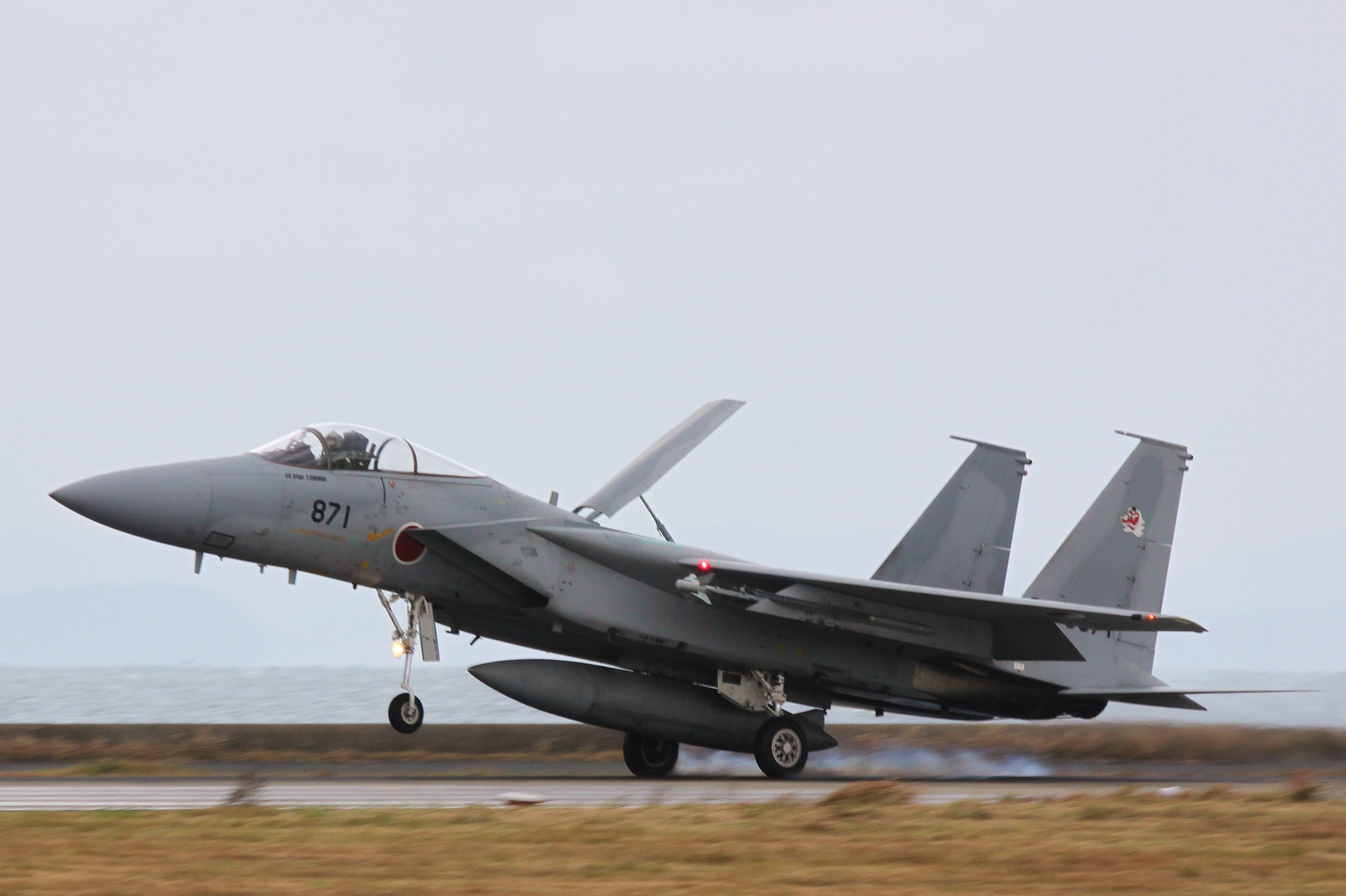 62-8871 F-15J of 304 Hikotai touching down at its Tsuiki base